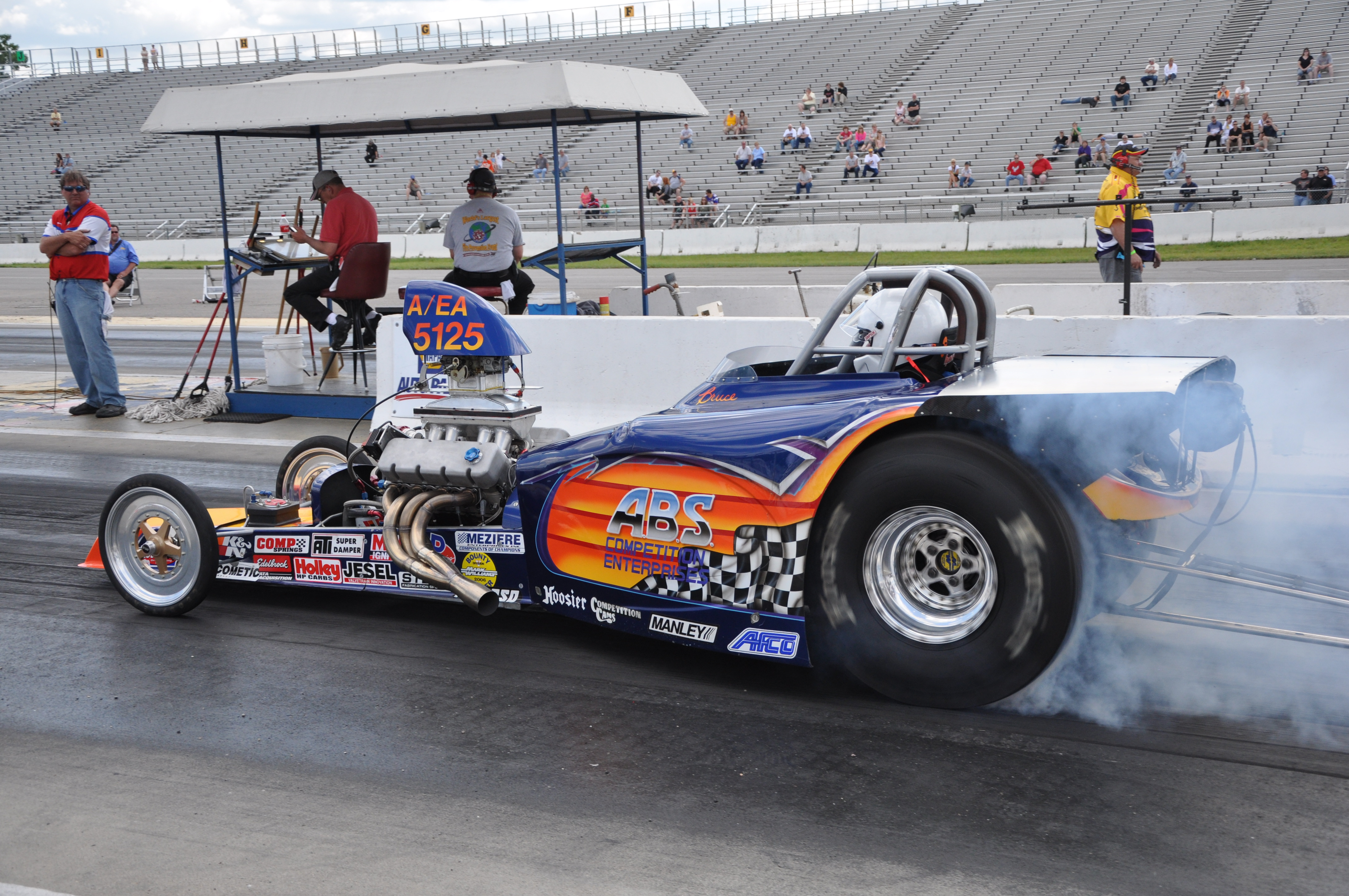 A/EA Bruce Schmiedl, '32 Bantam